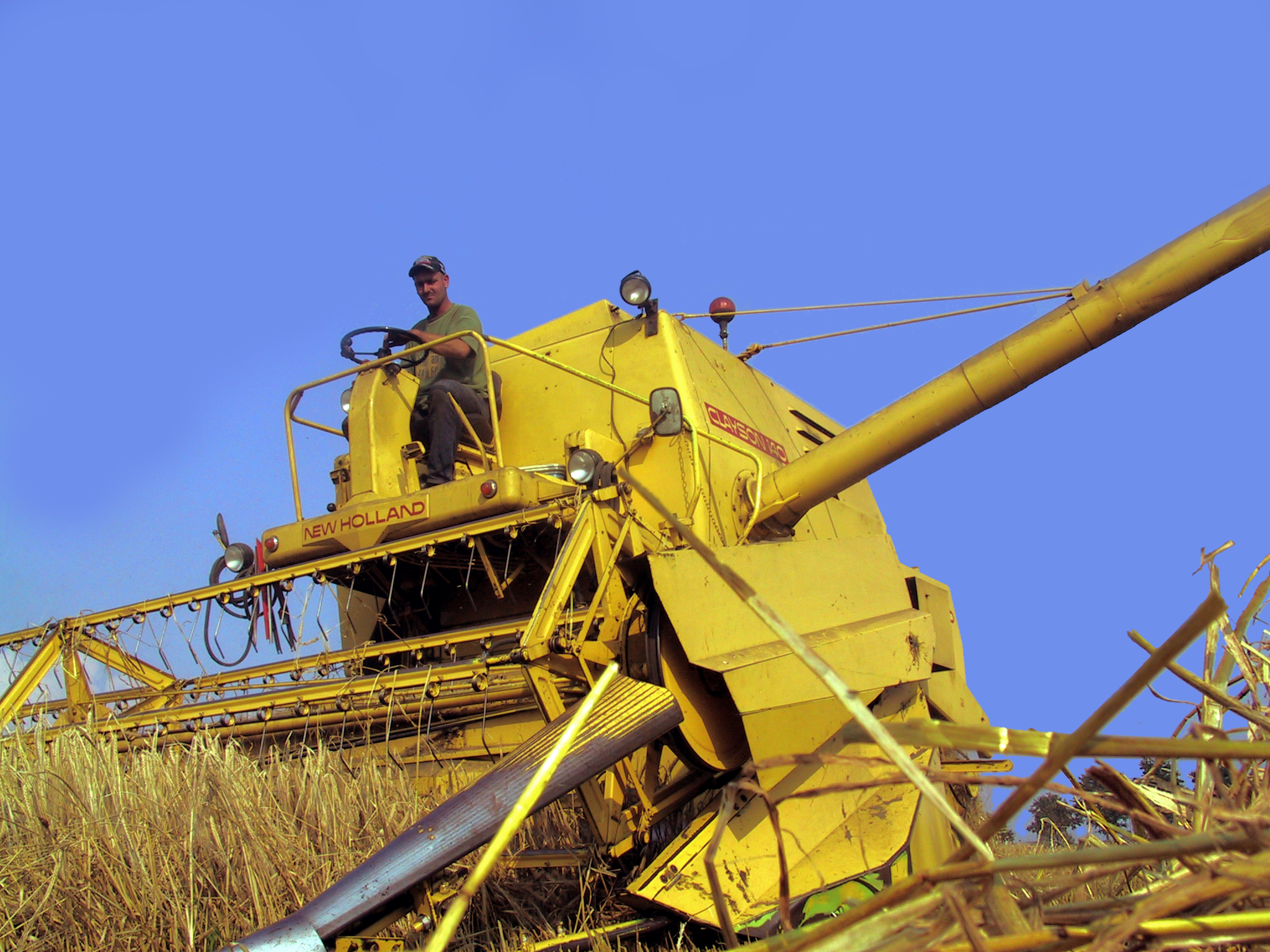 A 1970er New Holland Clayson-m140 combine